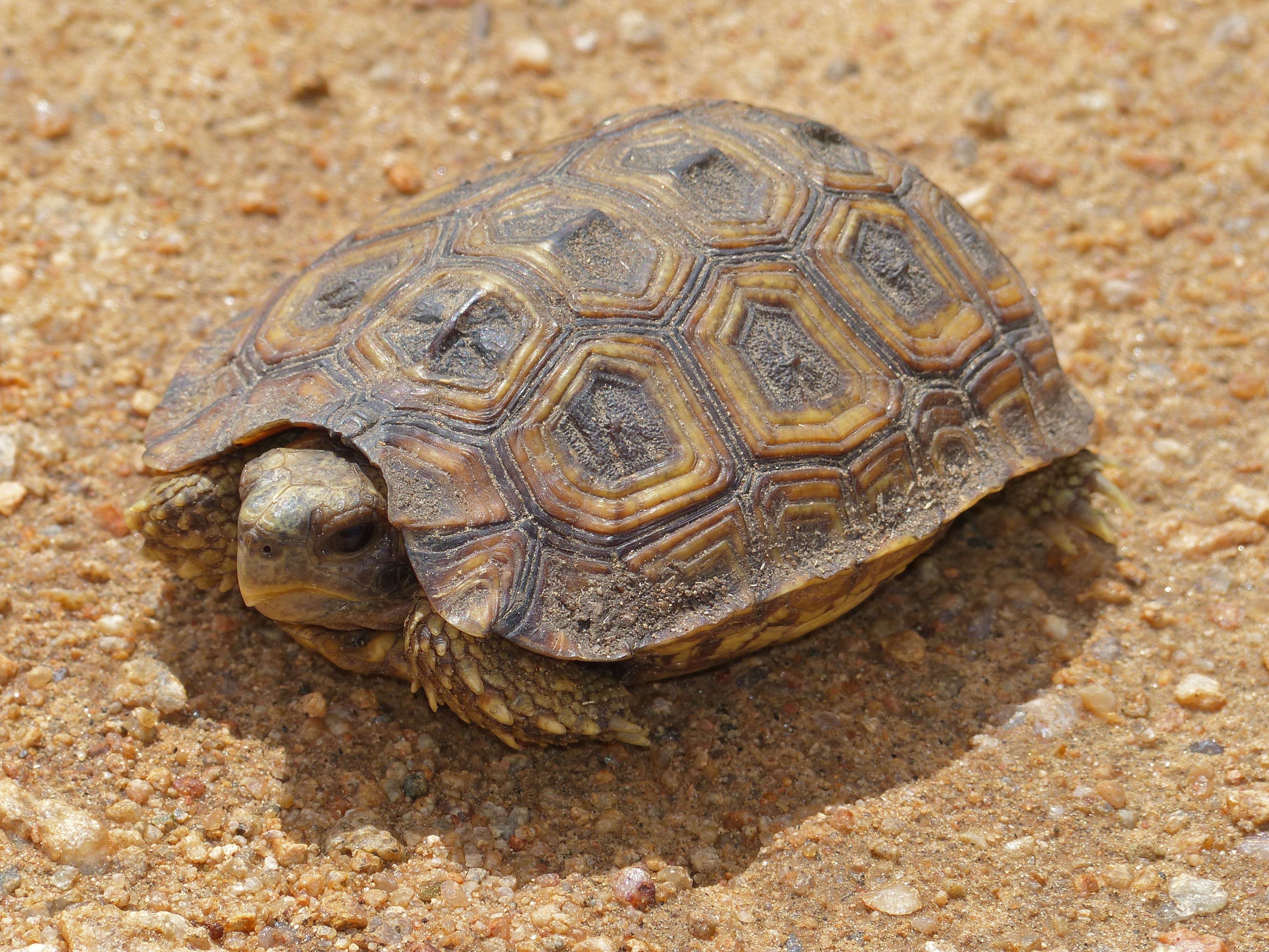 S25 Road East of Malelane, Kruger NP, SOUTH AFRICA